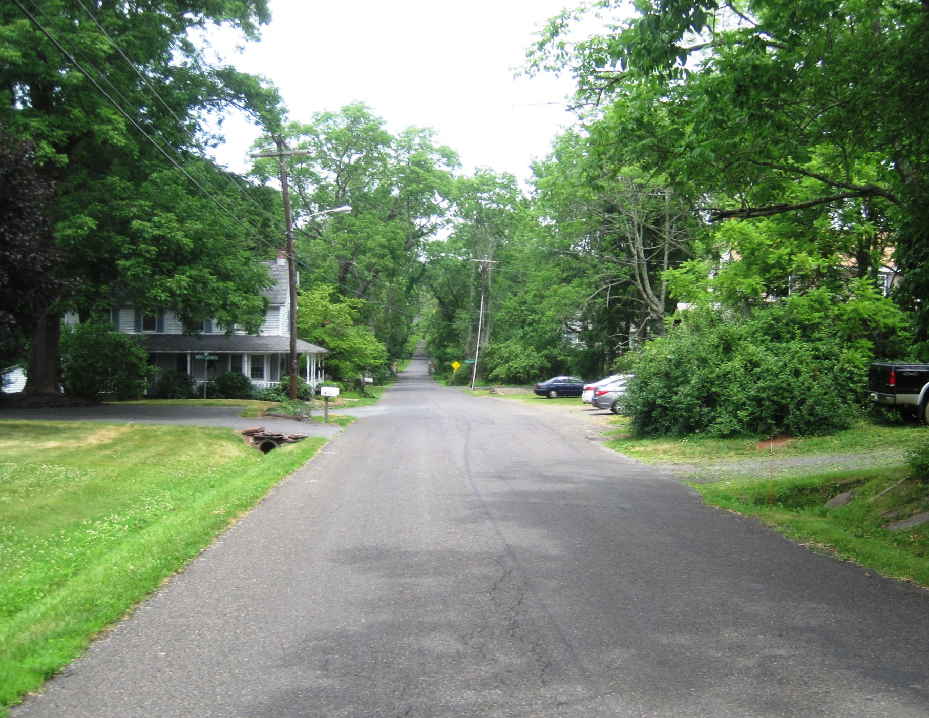 Photo of Locktown, New Jersey, an unincorporated community within Delaware Township. Photo taken looking north along Locktown-Sergeantsville Road between Locktown-Flemington Road and Kingwood-Locktown Road.